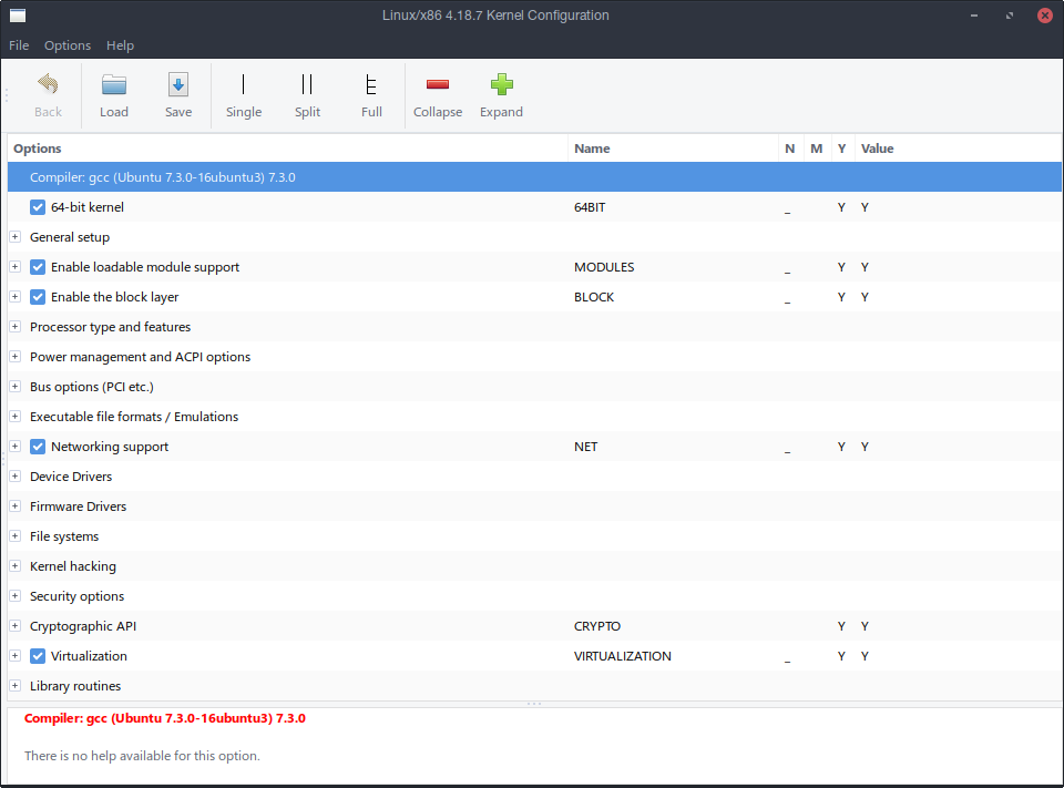 Linux x86 4.18.7 Kernel Configuration Using make gconfig